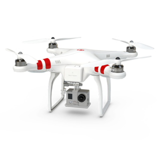 The DJI's Phantom quadcopter